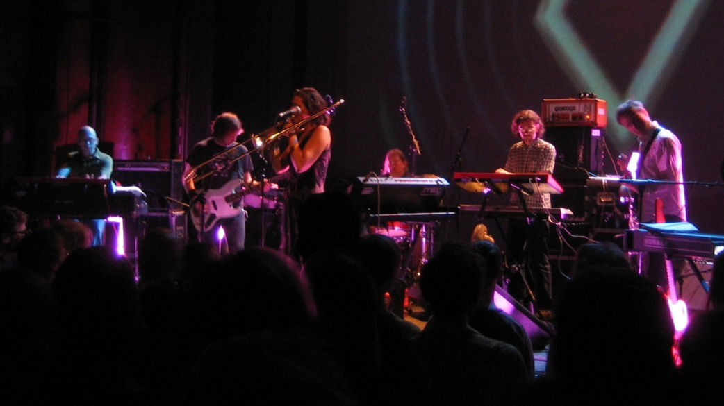 Hebbel am Ufer, 15. Mai 2006 (cropped version of the original)